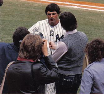 Lou Piniella speaks to the media in New York Yankees Spring Training, 1983. Philatio (talk) 2 . Phil5329 . . 334×301 (20 KB)